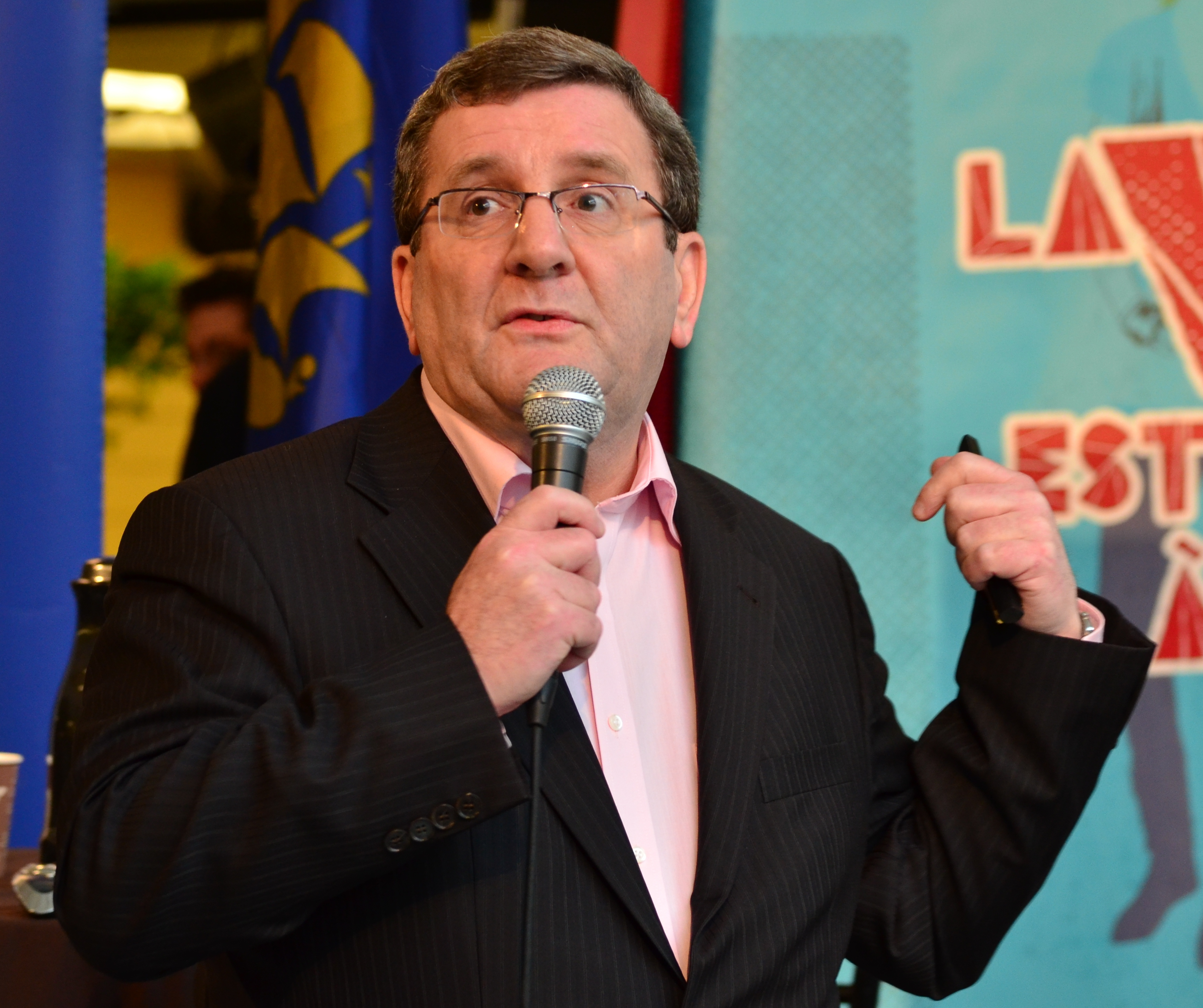 Quebec City's mayor Régis Labeaume during a conference at the Cégep Limoilou.